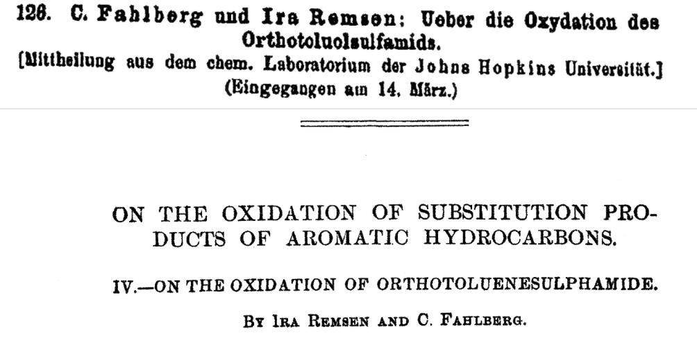 Headlines of the 1st German and the 1st American Publication on Saccharin (repro, mounting)